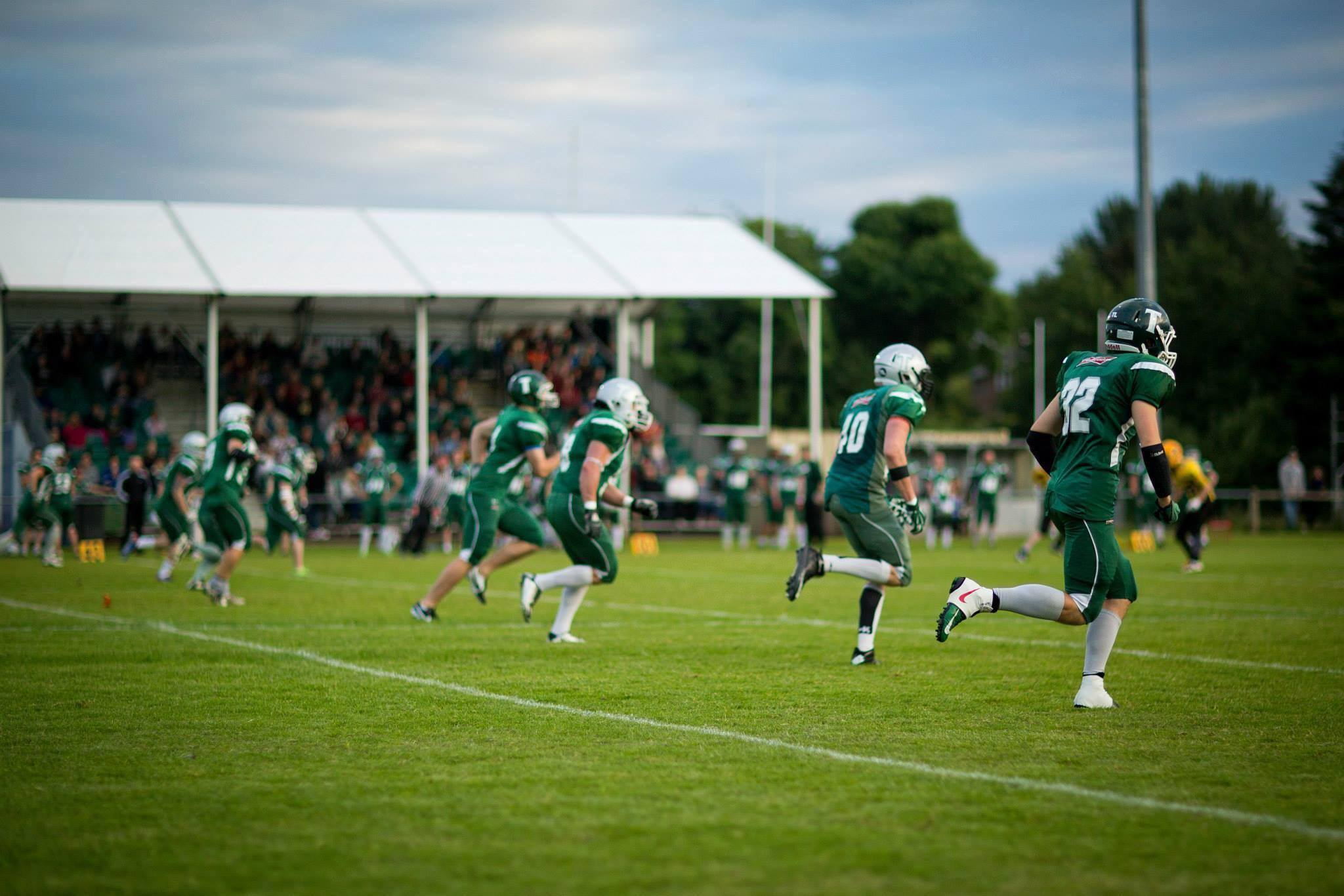 The Trojans kick off on the 4th of July Friday Night Lights